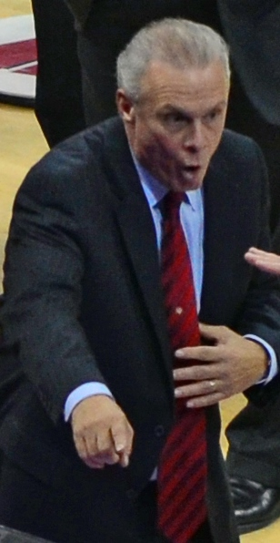 Wisconsin coach Bo Ryan unhappy with the ref for disallowing Ryan Evans' game-tying 3-point shot at the end of overtime against Michigan State